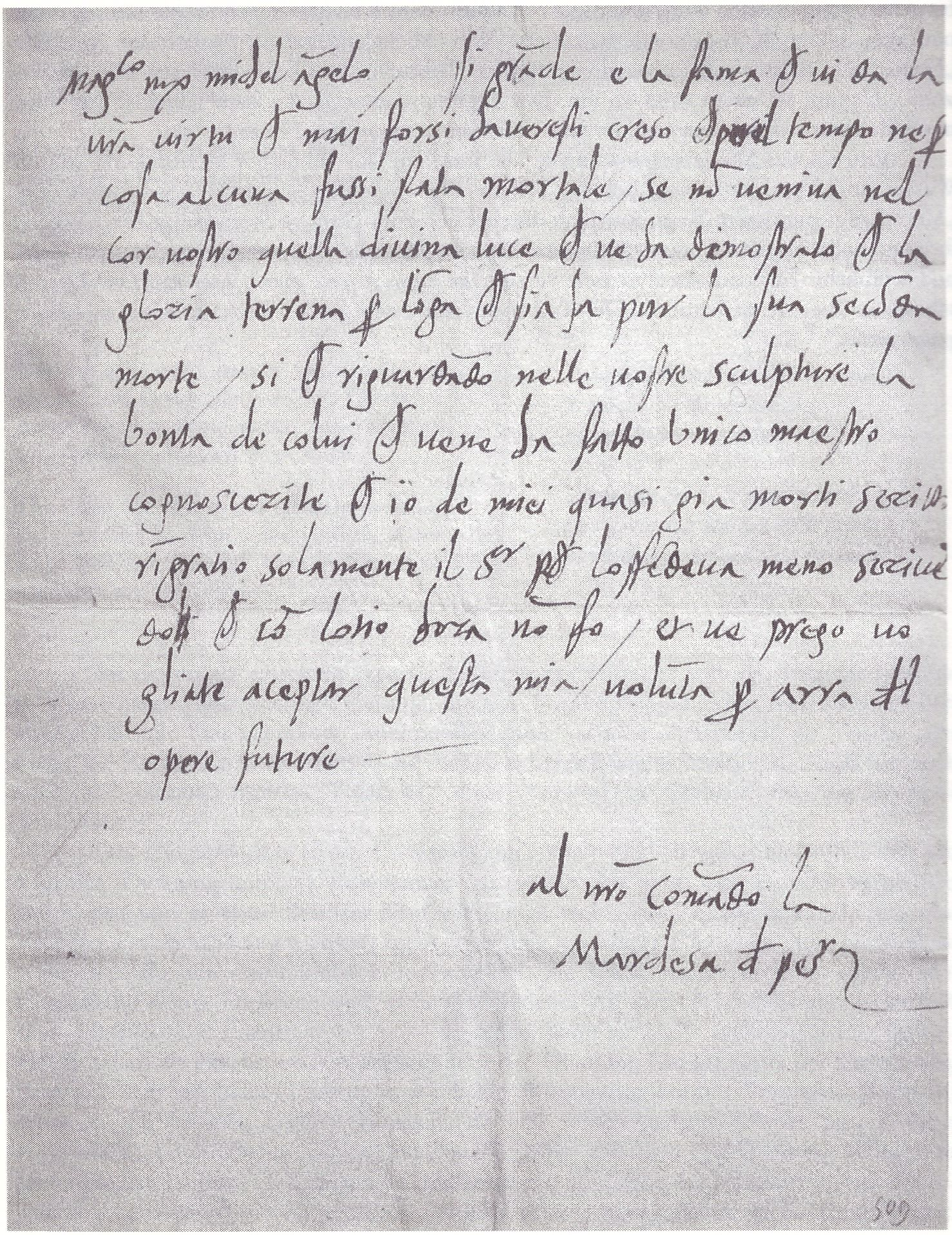 An autograph letter to Michelangelo. Florence, Casa Buonarroti, AB, IX, 509.